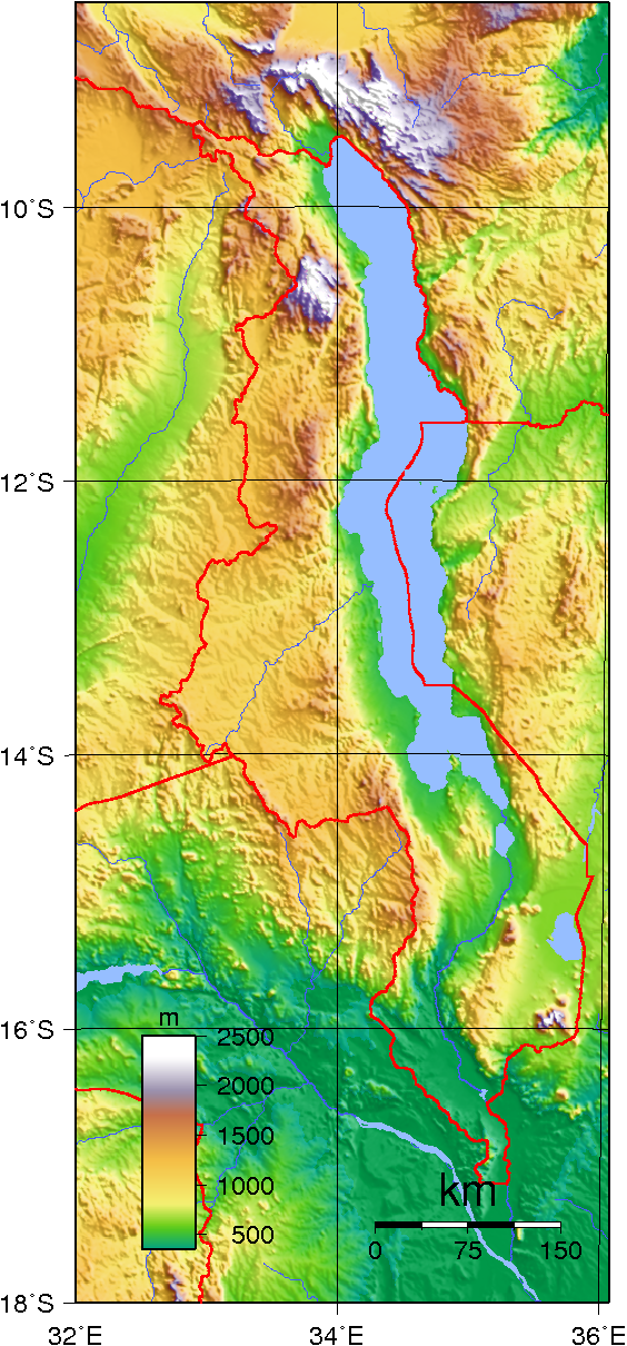 Topographic map of Malawi. Created with GMT from SRTM data.